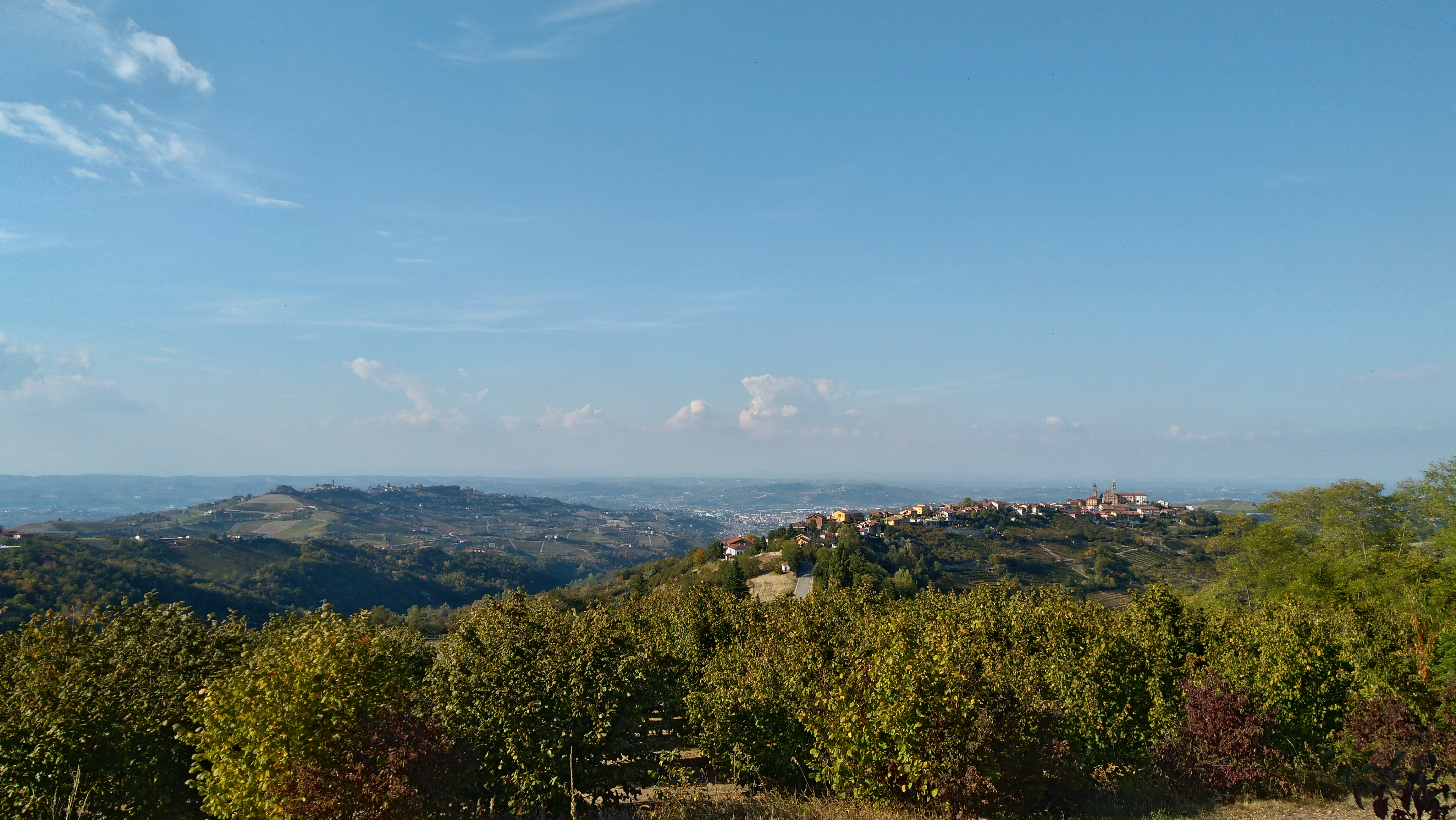 View over Rodello